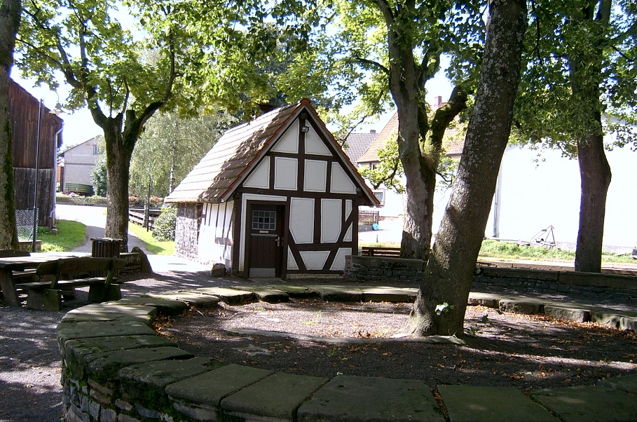 The Backhaus (oven house) at the Tanzplatz (dancing space) in Grebenhain